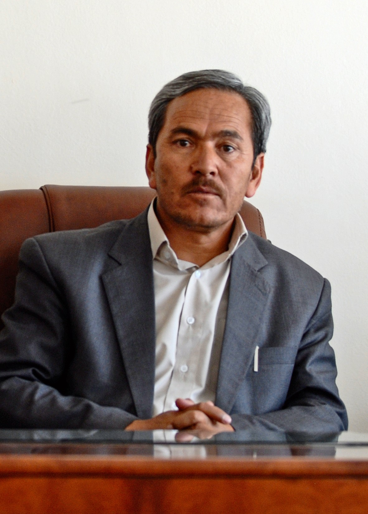 In this photo provided by International Security Assistance Force Regional Command (South) Qurban Ali Orugani, Daykundi provincial governor, sets at his desk during a meeting with ISAF RC-South leaders to discuss potential aid projects that could take place within Daykundi.(Photo ID: 417558)